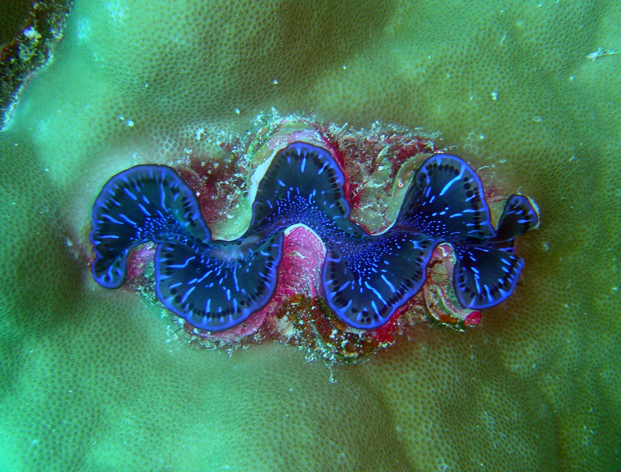 Giant clam (Tridacna sp.) Pohnpei.